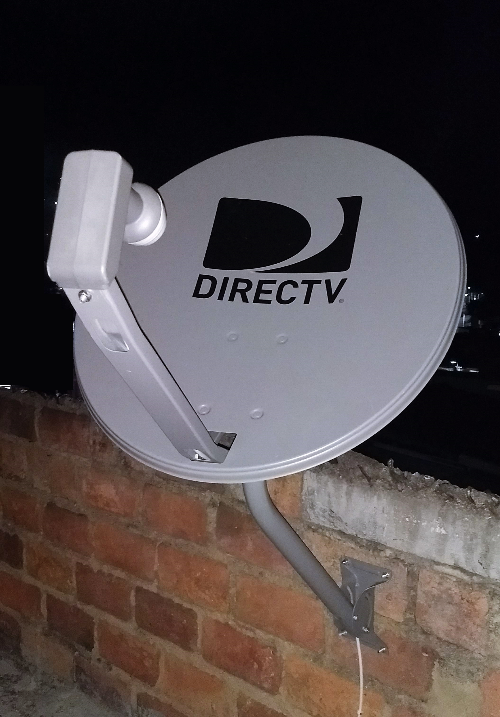 DirecTV Dish "round" with SF6 Dual LNB HD used in Latin America and Caribbean, this antenna installed on a sixth floor of my apartment, installed and running with a DirecTV high definition decoder